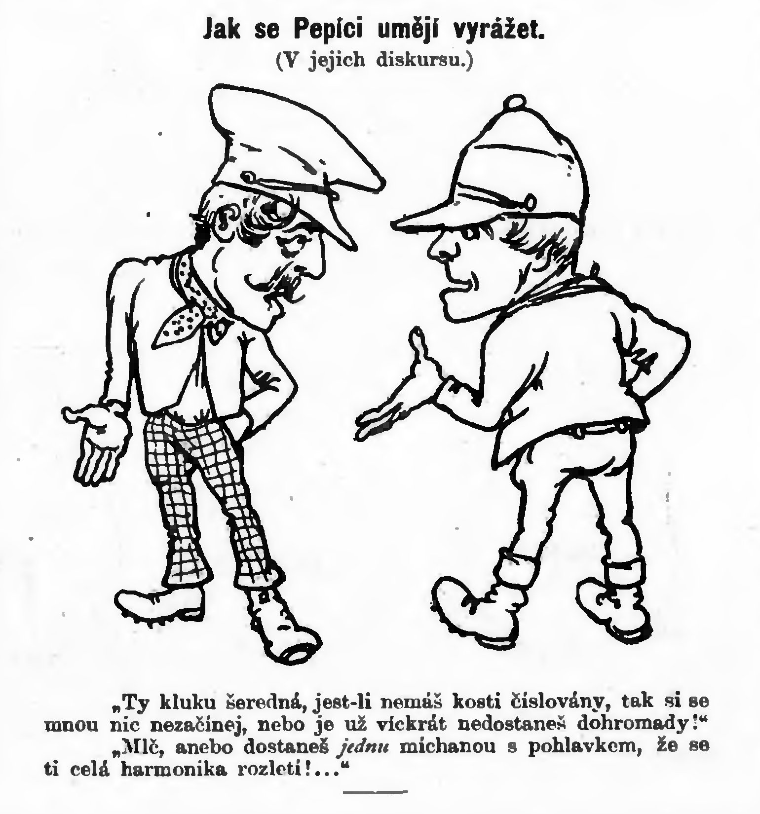 A cartoon with two "Pepík"-s, members of Prague underclass in 1880s till 1920s.